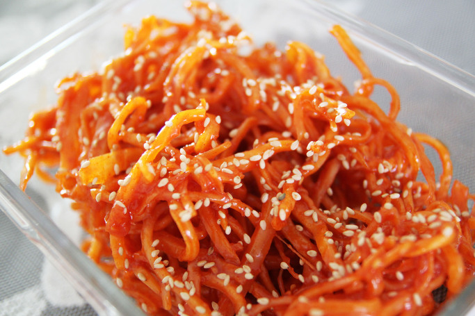 ojingeo-chae-bokkeum (stir-fried dried shredded squid)Template:Korean